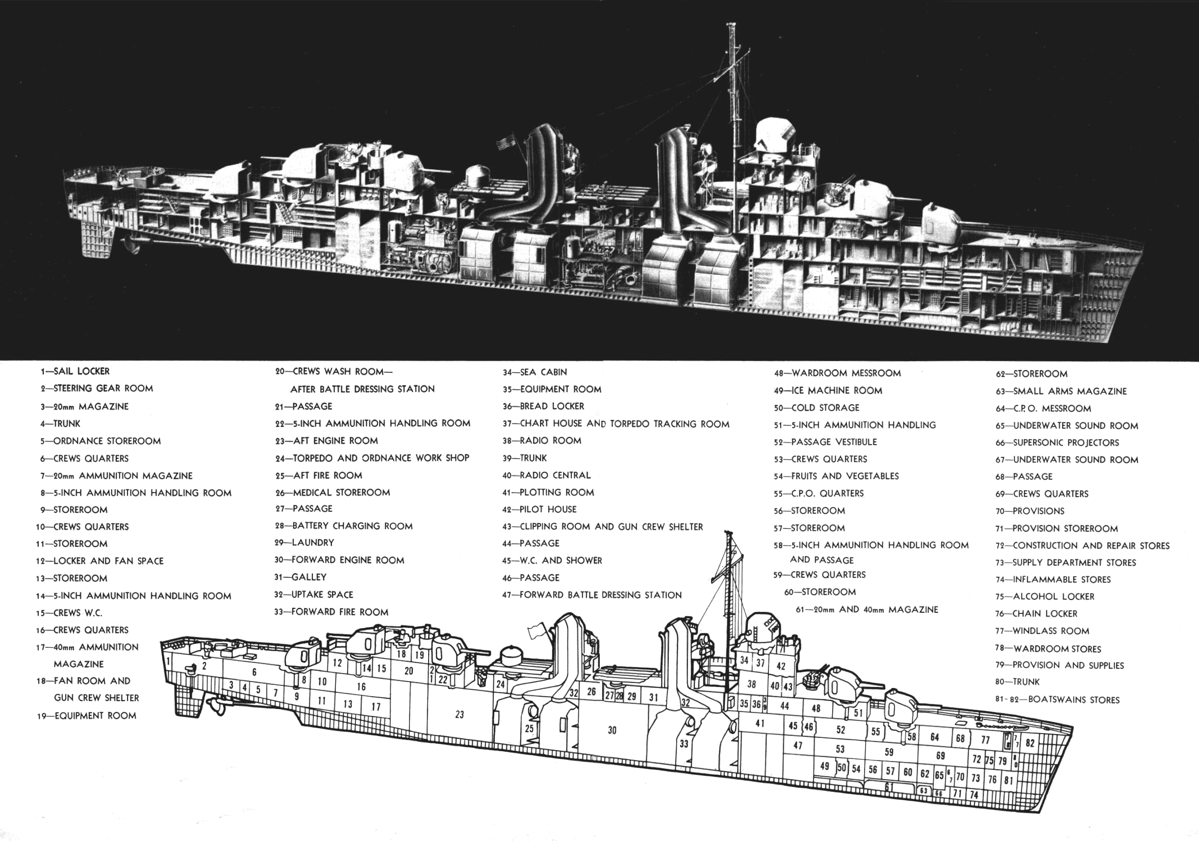 Technical drawing of a U.S. Navy destroyer. Although described as a "typical destroyer" by ALL HANDS in 1954, the destroyer depicted is a Fletcher-class destroyer, designed in 1939-40. 175 Fletcher-class destroyers were built between 1941 and 1945. Note that the radars are missing.